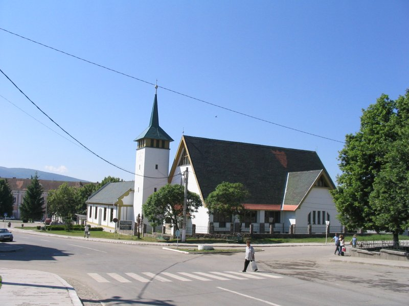 Barót Református Templom / Barót (Baraolt) Reformed Church